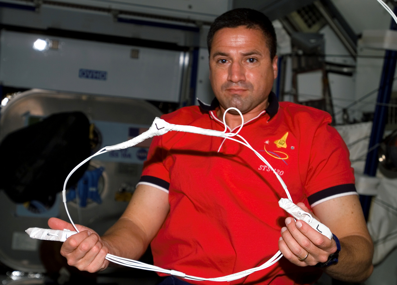 Astronaut George Zamka, STS-120 pilot, holds a "cufflink" apparatus in the Harmony node of the International Space Station, which will be attached to the damaged solar arrays and take the structural load off of the broken hinge during the fourth spacewalk of the mission.